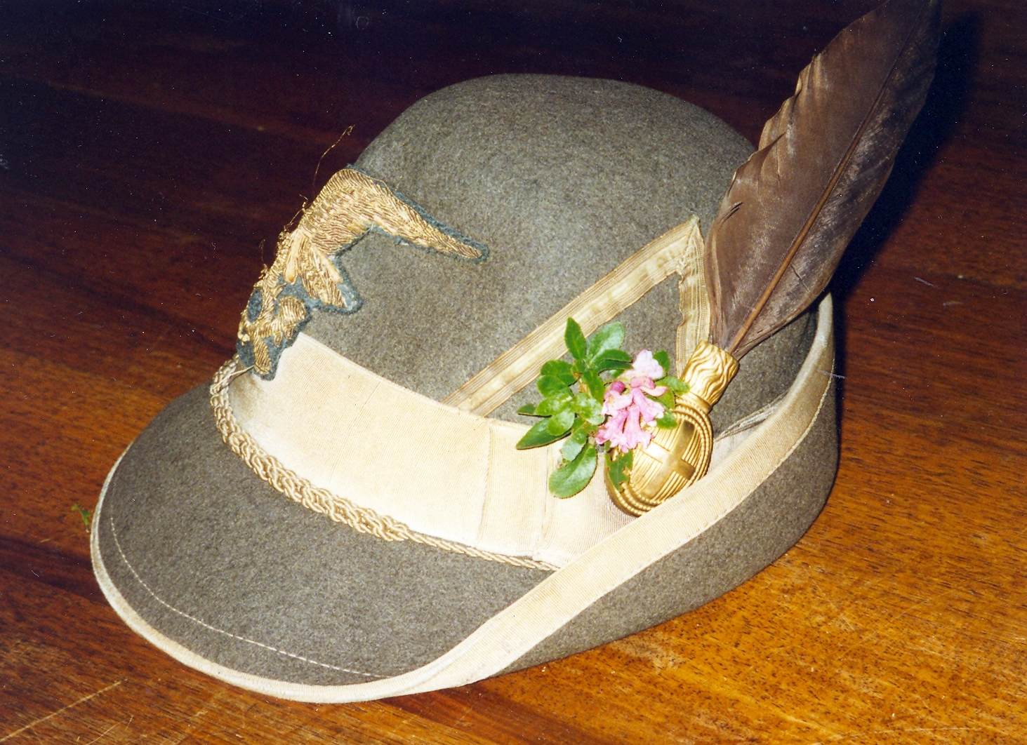 Monte Croce and Baitello dell'Amicizia in Esino Lario. The images where used for a publication to celebrate the construction of the Baitello dell'Amicizia in Esino Lario, 2009. When available in the title you can find the year of the picture.